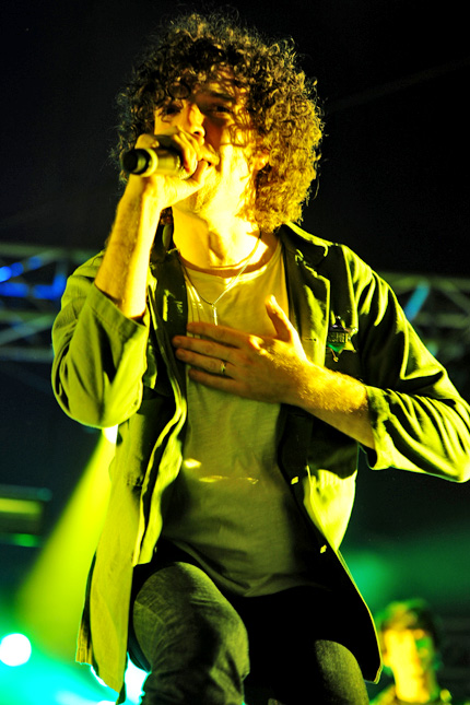 Southbound Festival 2011